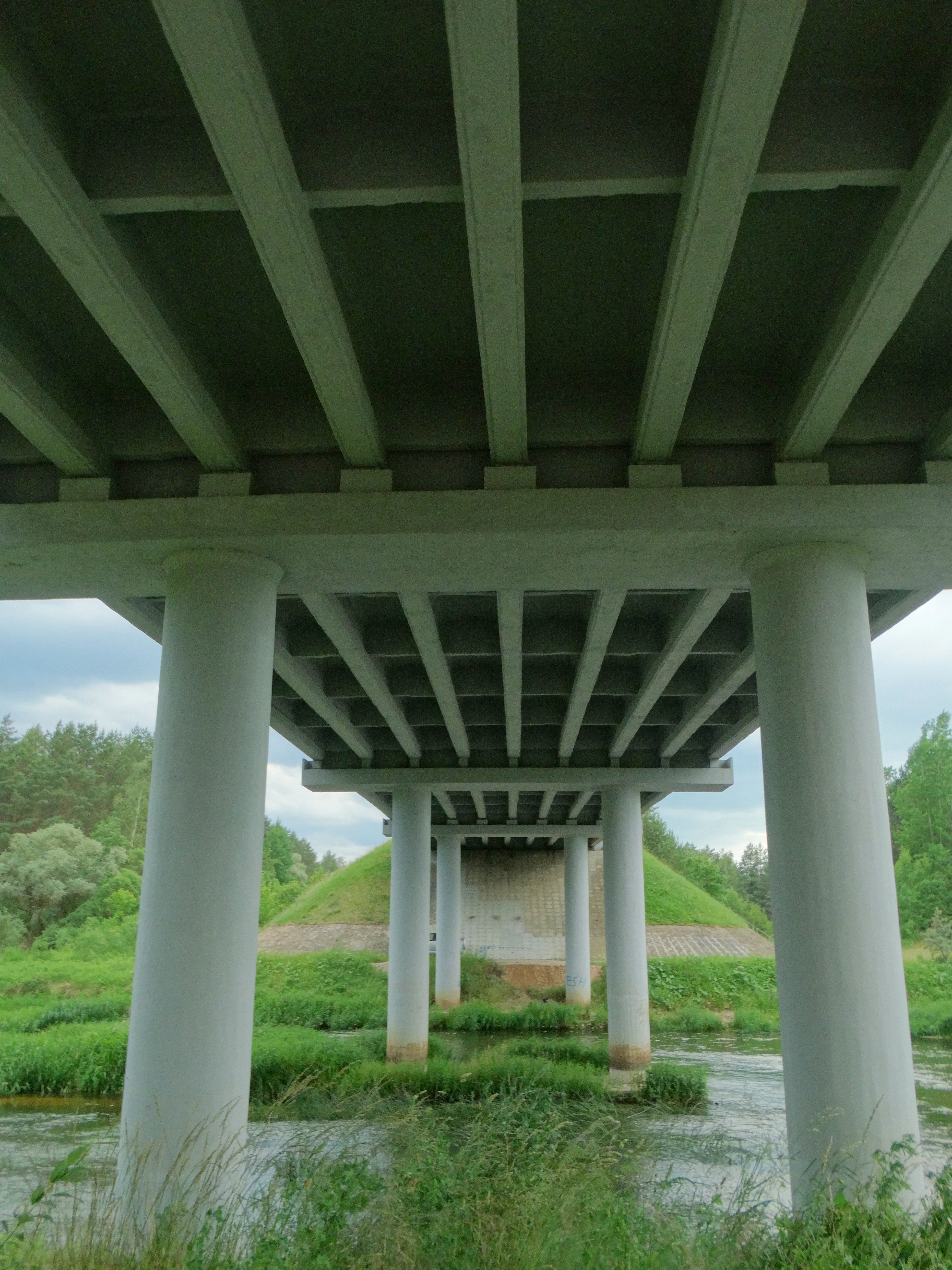 Bridge on Šventoji River, Radiškis, Ukmergė district, Lithuania